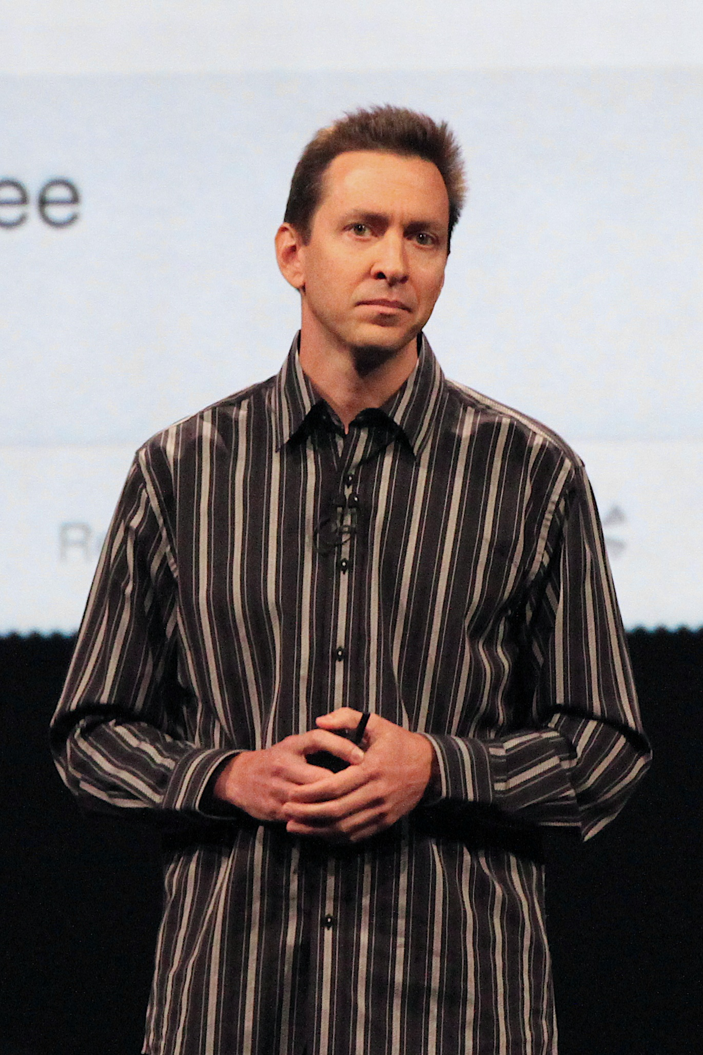 Scott Forstall presenting at Apple's Worldwide Developers Conference 2012